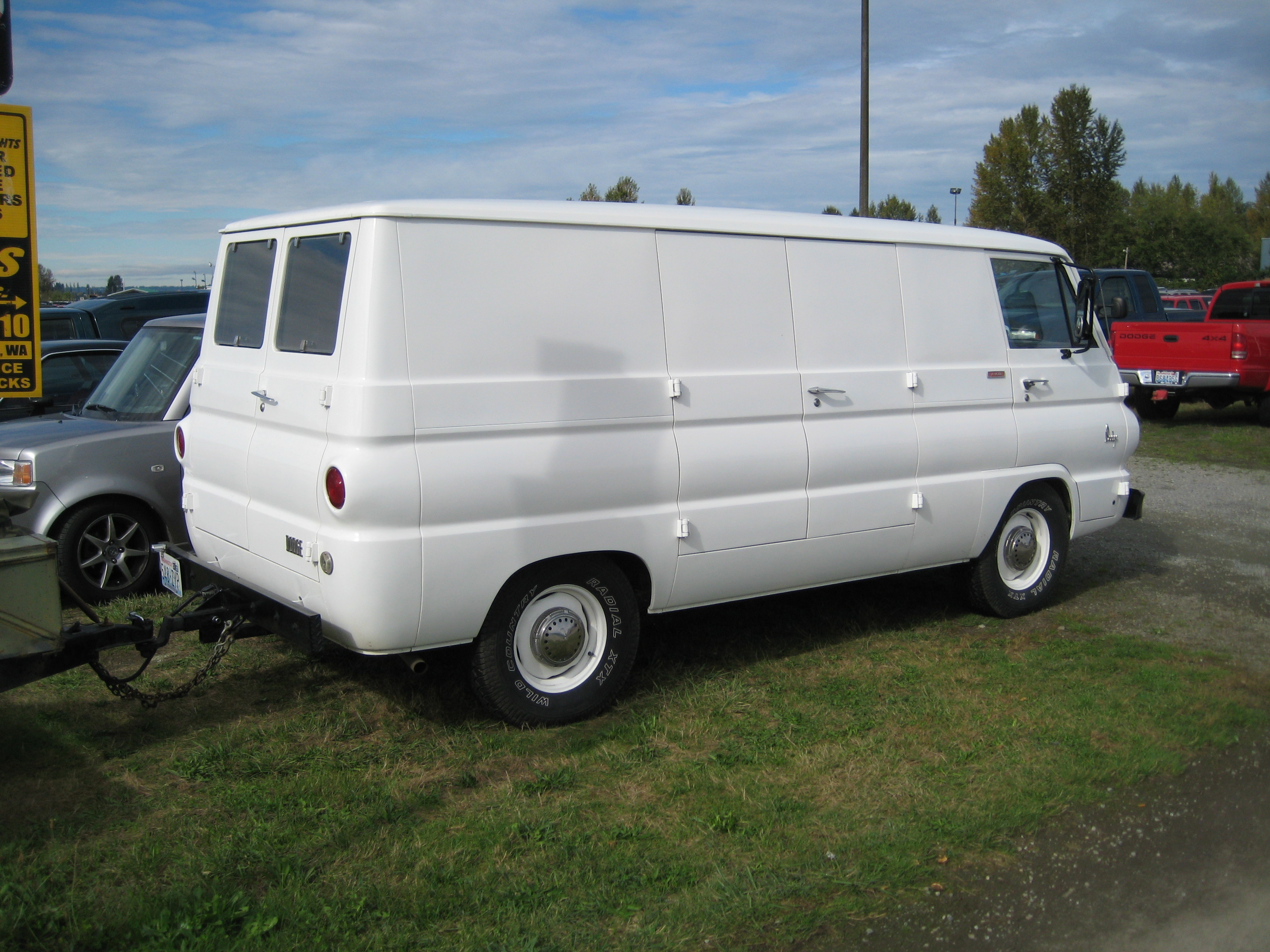 Seen in the parking lot at the swap meet Saturday in Monroe, Washington.